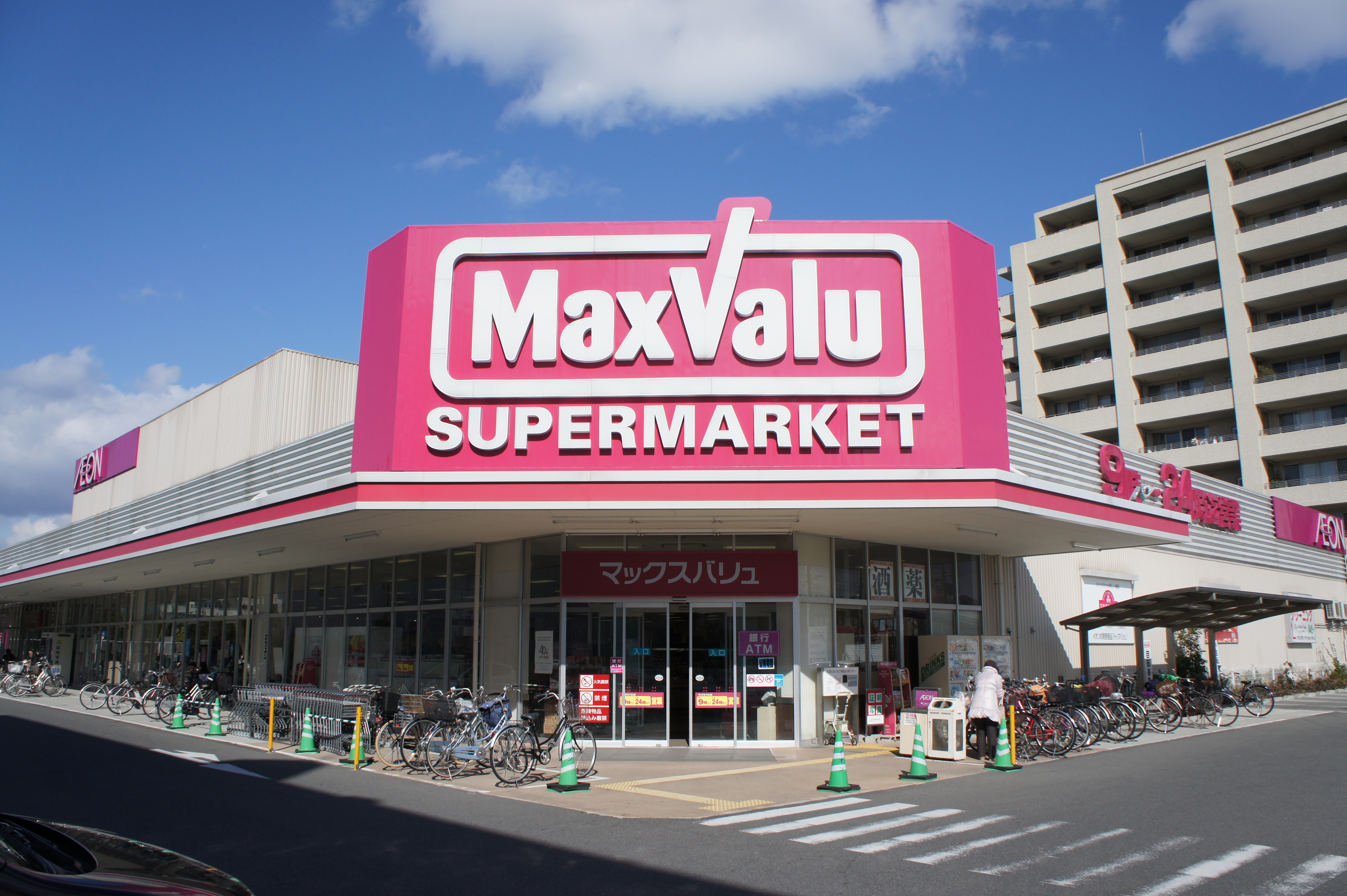 MaxValu Takatsuki-Minami, 18-7 Sawaragicho Takatsuki-City Osaka Japan.